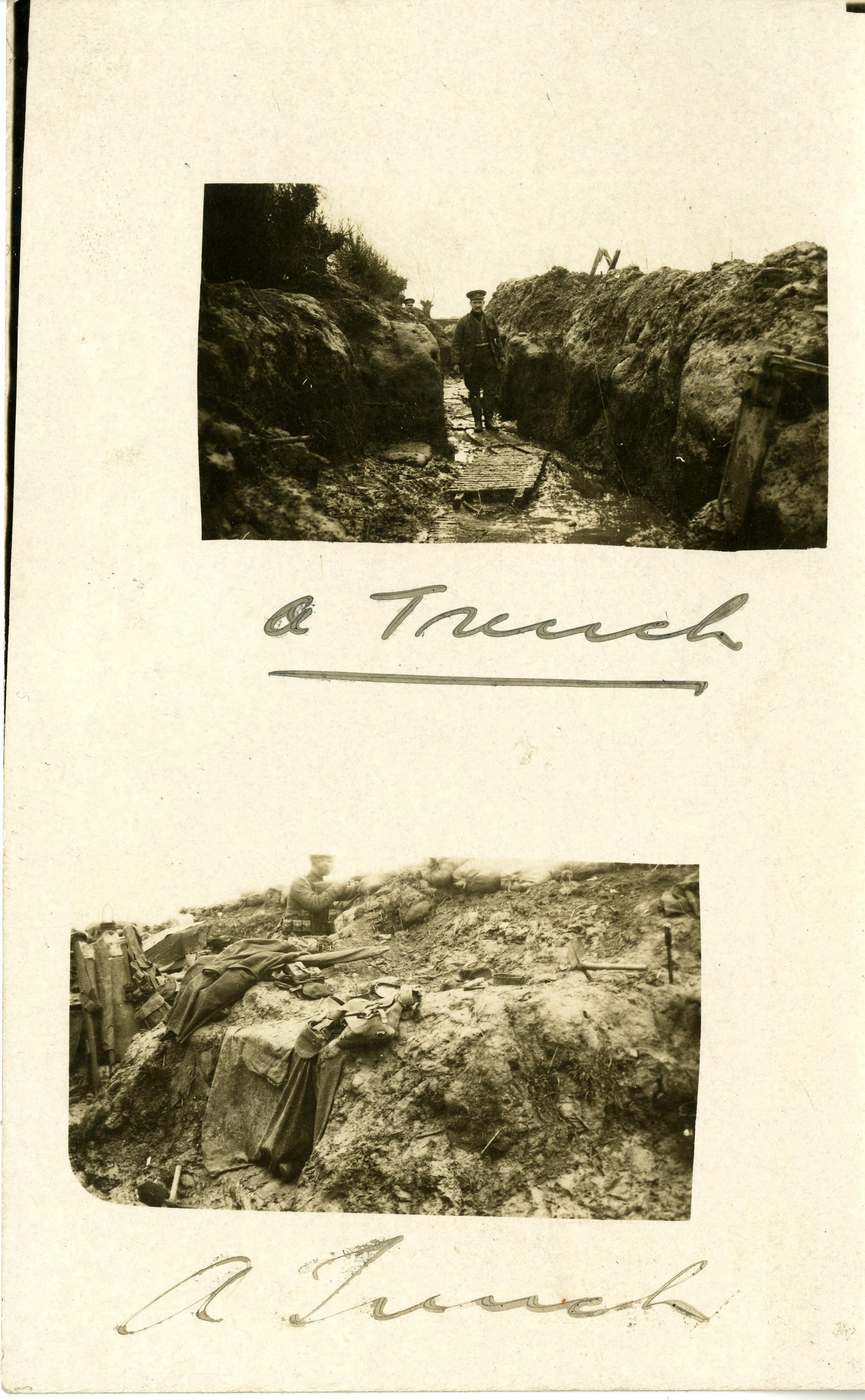 From the Saunders, Dingwall family fonds, PR1966.0025/51.